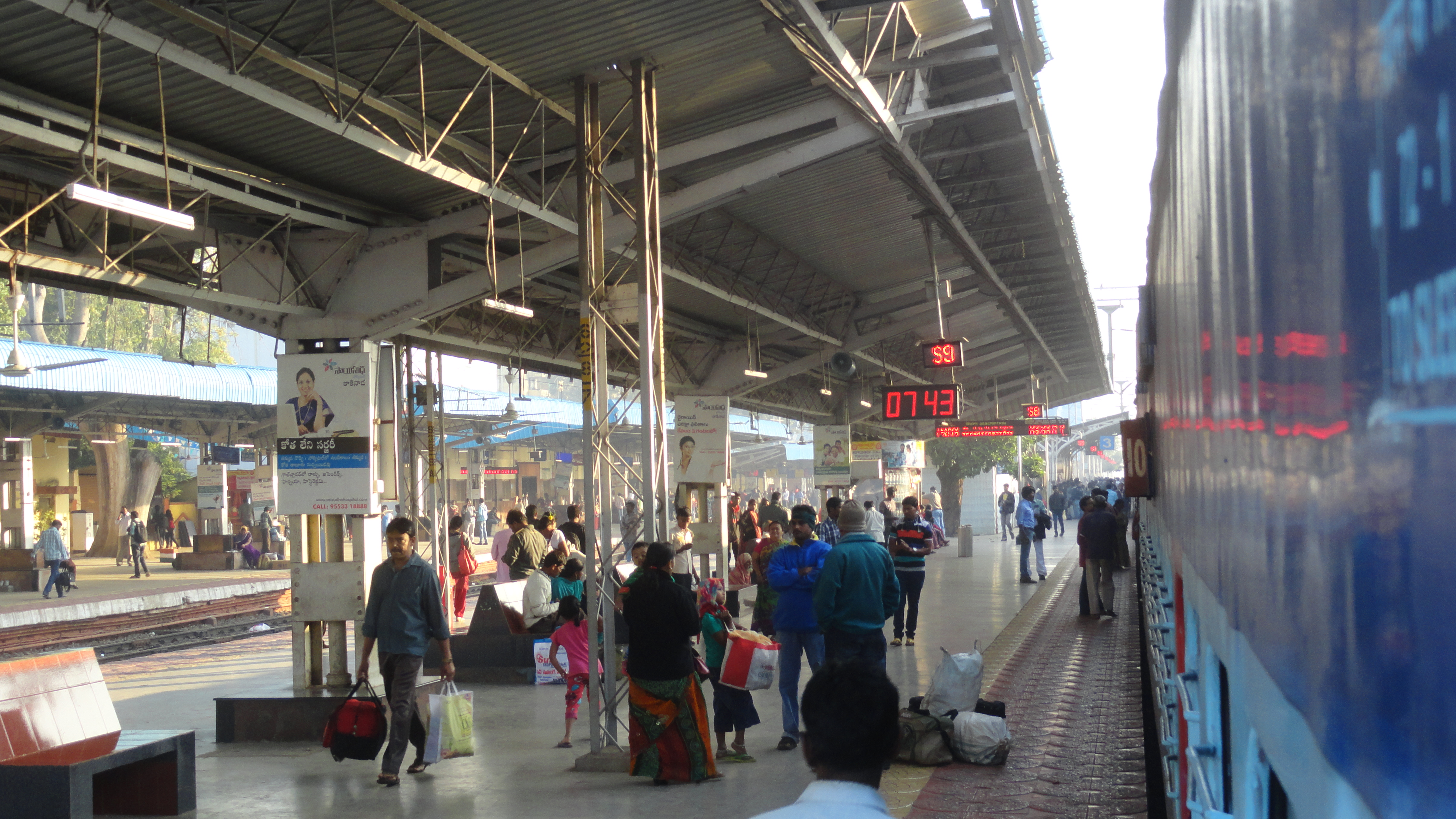 Railway station. haurah